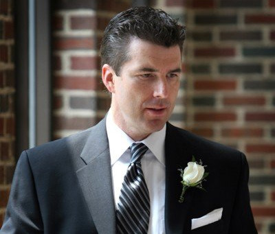 ESPN sports broadcaster Rece Davis